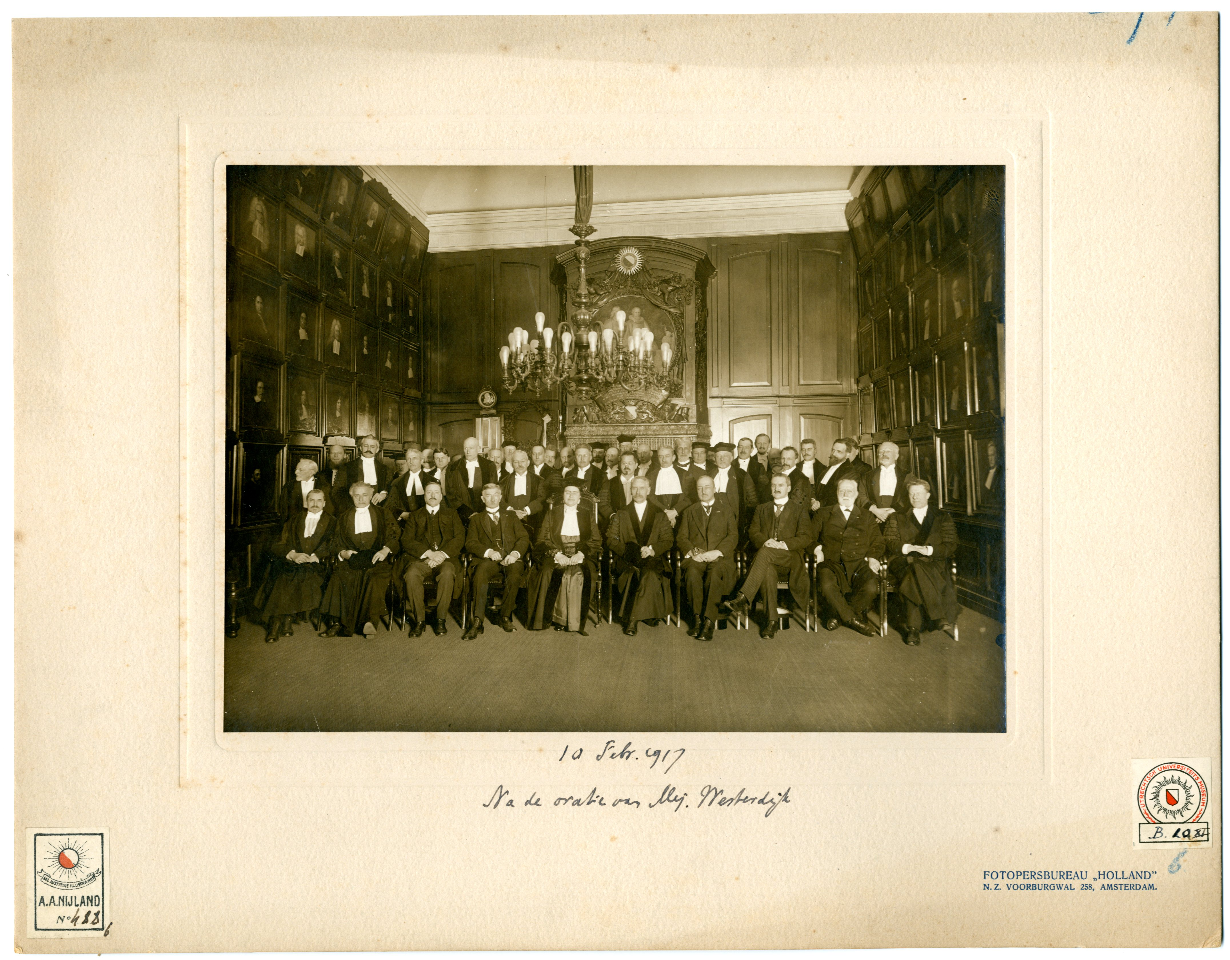 Faculty of Utrecht University, at the oration of Prof. Johanna Westerdijk, 10 Febr. 1917. Front row, from left to right: Willem Molengraaff, Pieter van Romburgh, Alex graaf van Lijnden van Sandenburg, Alexander Frederik baron van Lijnden, Johanna Westerdijk, rector Pieter Helbert Damsté, Arthur Eduward Joseph baron van Voorst tot Voorst, Joachimus Pieter Fockema Andreae, Hendrik Wefers Bettink, Hendrik Zwaardemaker. Standing, left to right: Martin Theodoor Houtsma, Jan Rudolph Slotemaker de Bruine, Arie Noordtzij, David Simons, Johann Frantzen, Hermann Jacques Jordan, Bonifacius Christiaan de Savornin Lohman, Herman Snellen Jr., Ewoud van Everdingen, Jan de Louter, Friedrich Went, Ernst Cohen, Bernard Jan Hendrik Ovink, Hugo Frederik Nierstrasz, Jan Frederik Niermeijer, Willem Cornelis de Graaff, Herman Theodorus Obbink, Albert Antonie Nijland, Willem Caland, Johannes Wilhelm Pont, Jan de Vries, Willem Kapteyn, Hugo Visscher, Christiaan Eijkman, Johan d' Aulnis de Bourouill, Willem Vogelsang, Hugo Rudolph Kruyt, Willem Julius, Arnoldus Johannes Petrus van den Broek, August Adriaan Pulle, Hendrik Bolkestein, [unrecogn.], Charles Henri Hubert Spronck.